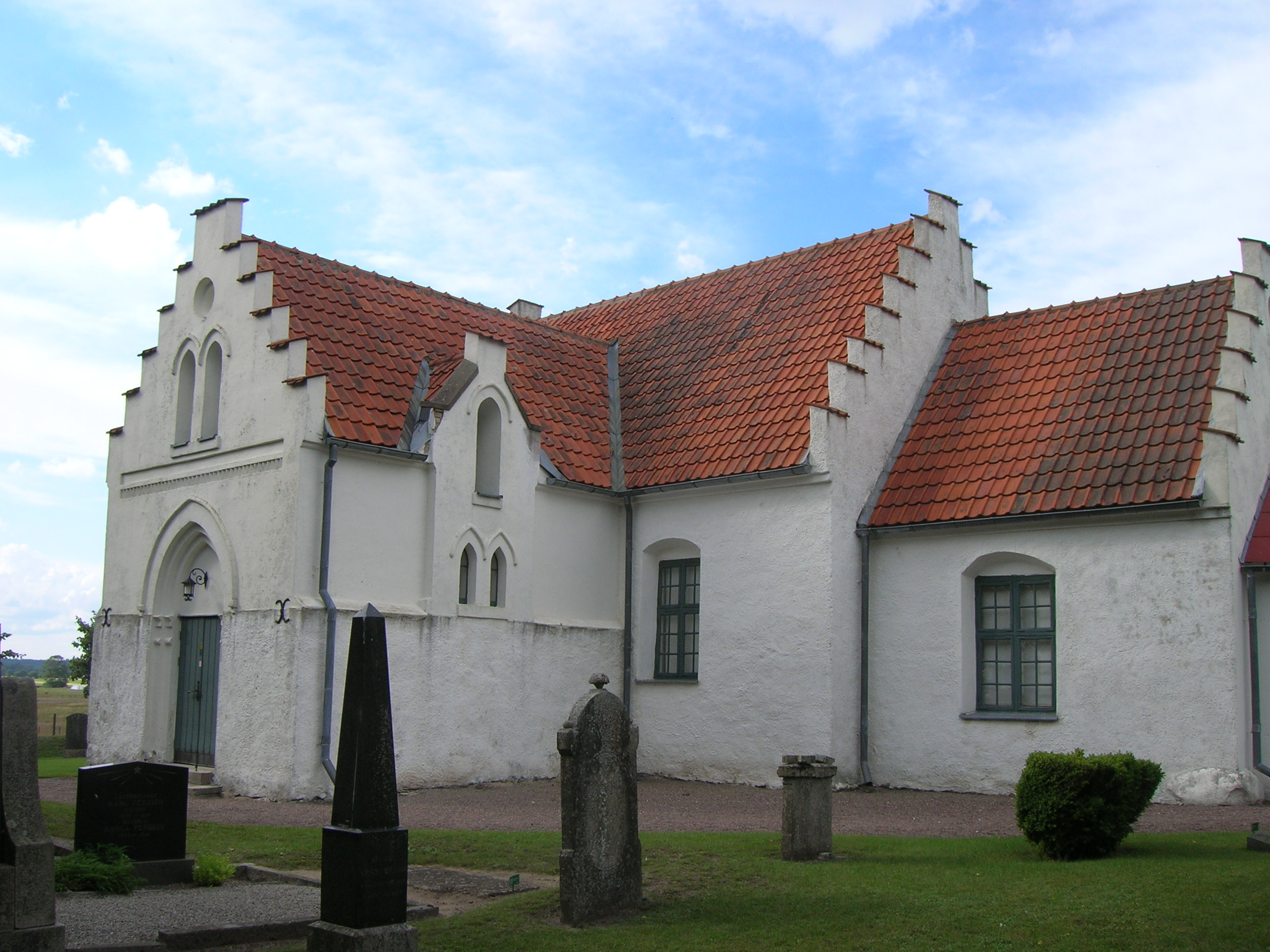 Ilstorp Church, Sjöbo Municipality, Scania, Diocese of Lund, Sweden.